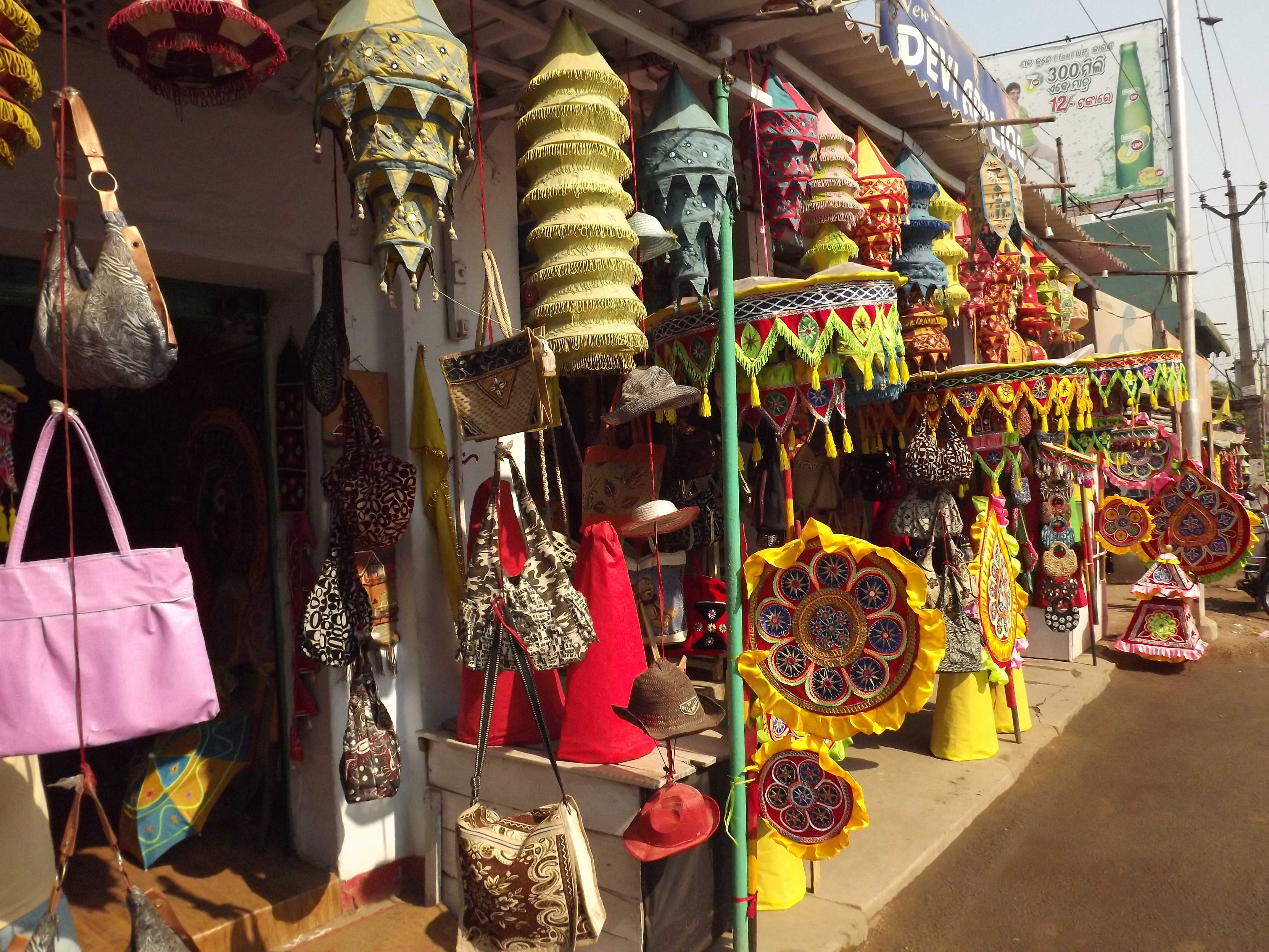 Handicrafts on display in Pipli